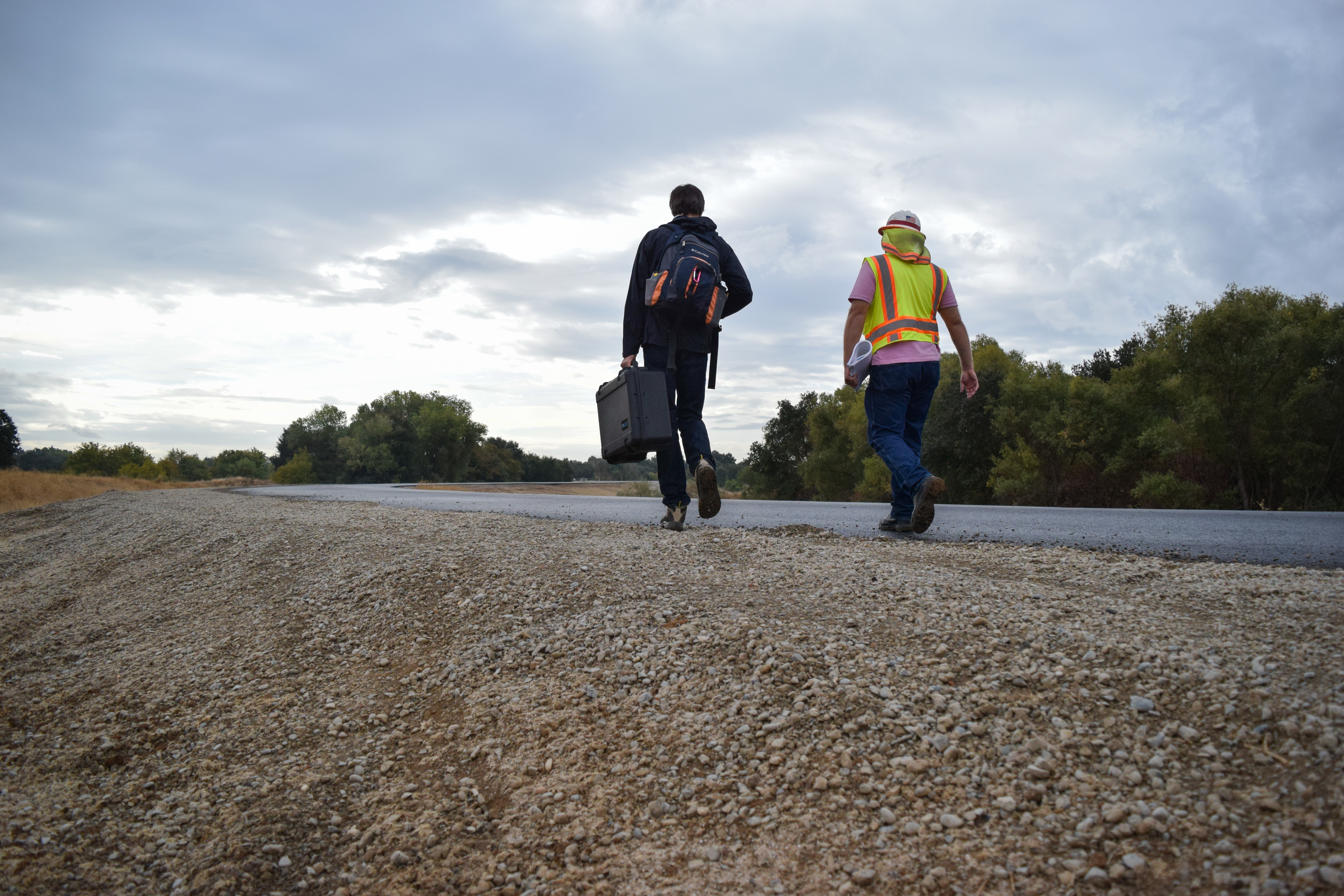 Corps completes new paved setback levee in West Sacramento Ed Stewart (right), a construction representative with the U.S. Army Corps of Engineers Sacramento District, talks with University of California Davis professor Brett Milligan while touring a new paved setback levee near South River Road in West Sacramento, California, Oct. 15, 2014. The levee is part of the Sacramento River Bank Protection Project, a joint flood risk reduction effort between the Corps and the California Central Valley Flood Protection Board to repair riverbank erosion along the Sacramento River and its tributaries. (U.S. Army photo by Todd Plain/Released)